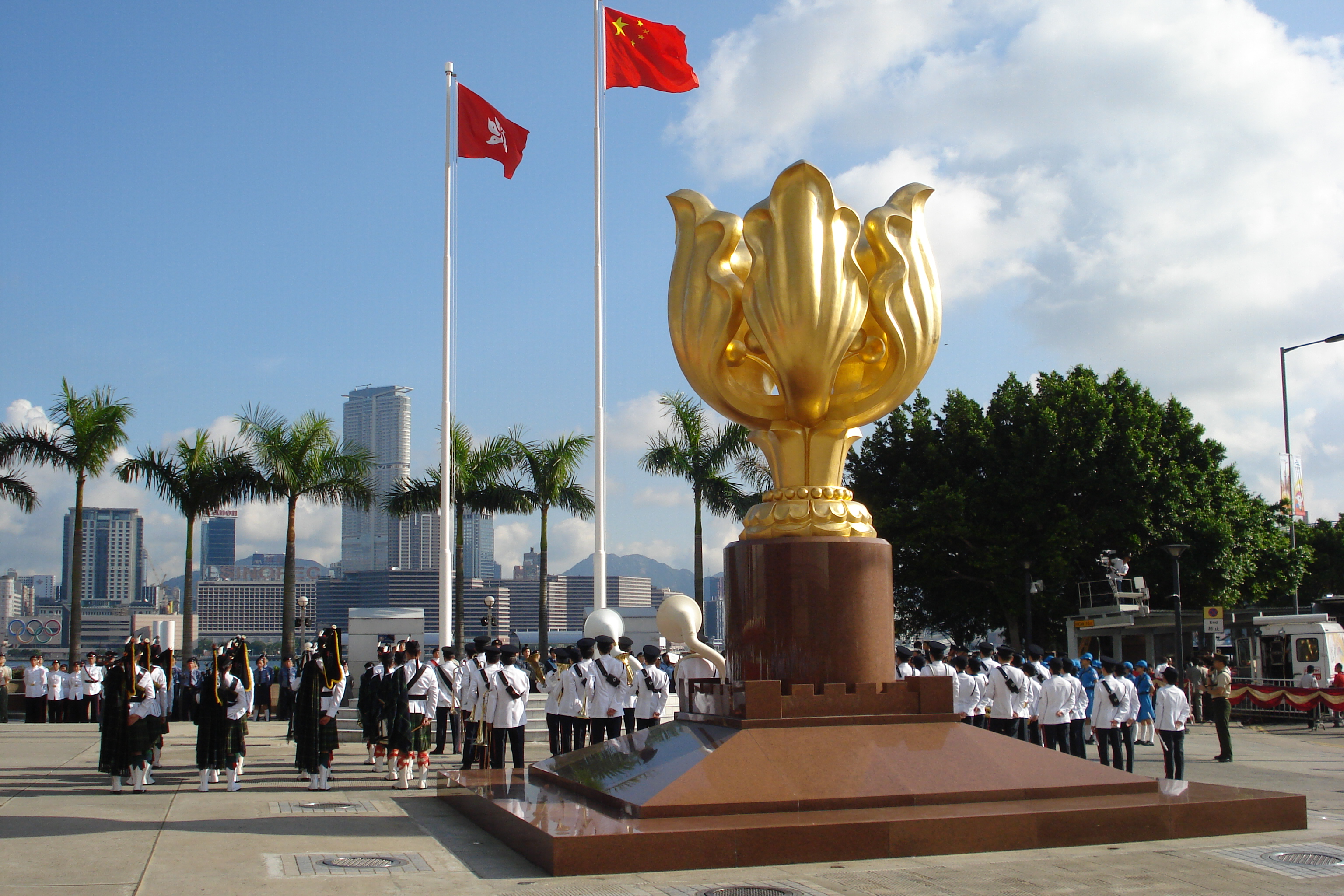 Flag Rising Ceremony at Golden Bauhinia Square on 2008.8.30